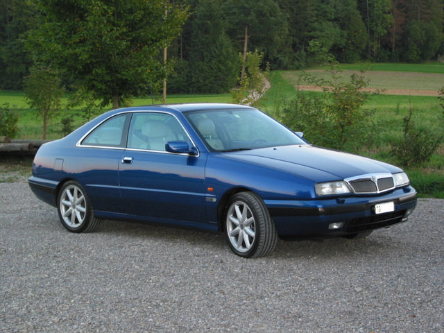 Lancia Kappa Coupé with the wheels of Kappa Station Wagon